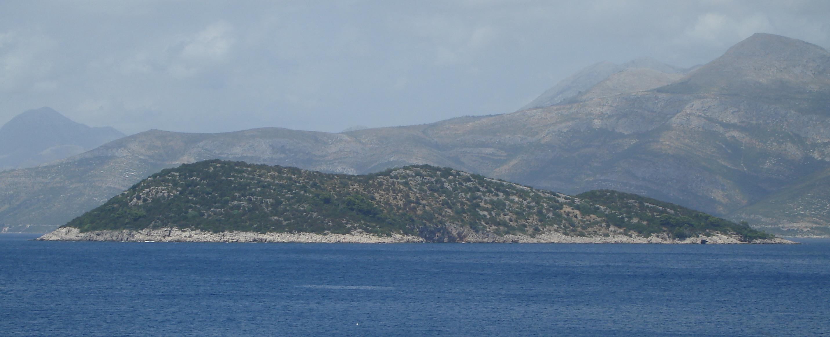 Photograph of Ruda (Rudo) Island, Croatia. Taken from Lopod Island (both Elafiti / Elaphiti Islands)